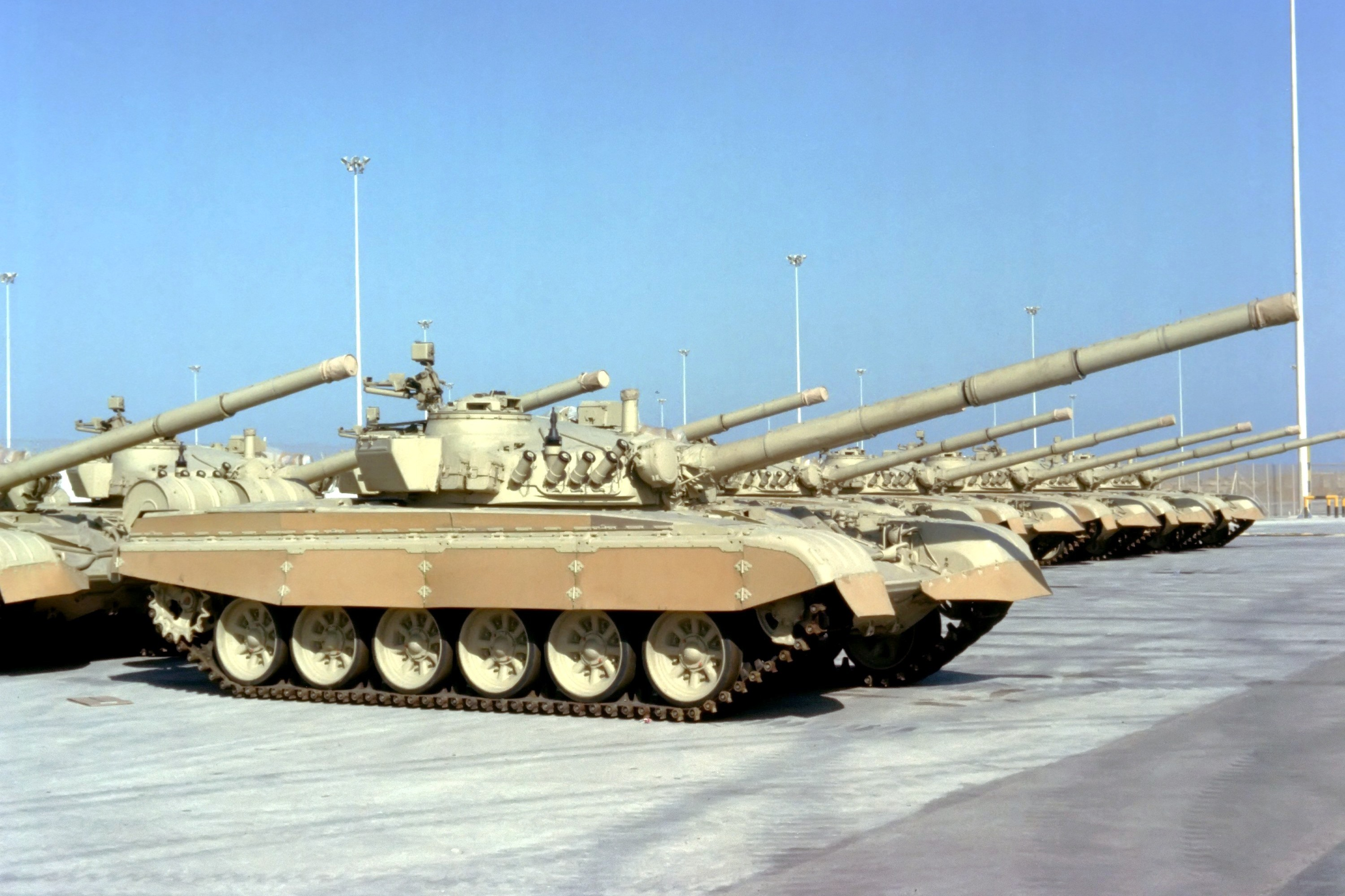 Kuwaiti M-84 main battle tanks, made in Yugoslavia, are stored at a Saudi base during Operation Desert Shield until they can be returned after the liberation of Kuwait from Iraqi forces.